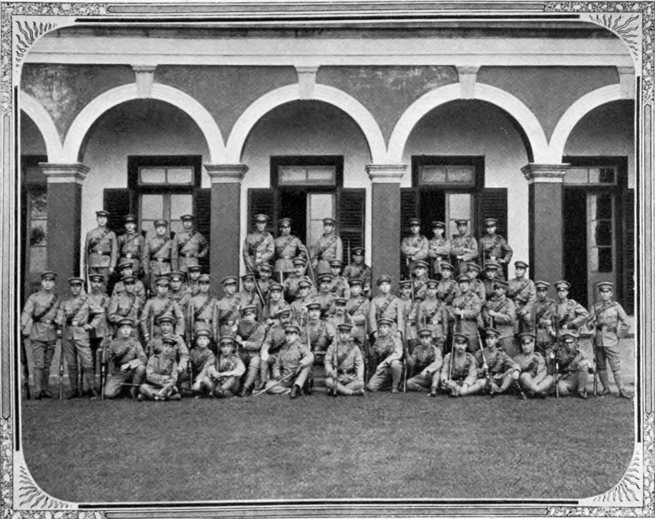 japanese military unit of the shanghai volunteer corps